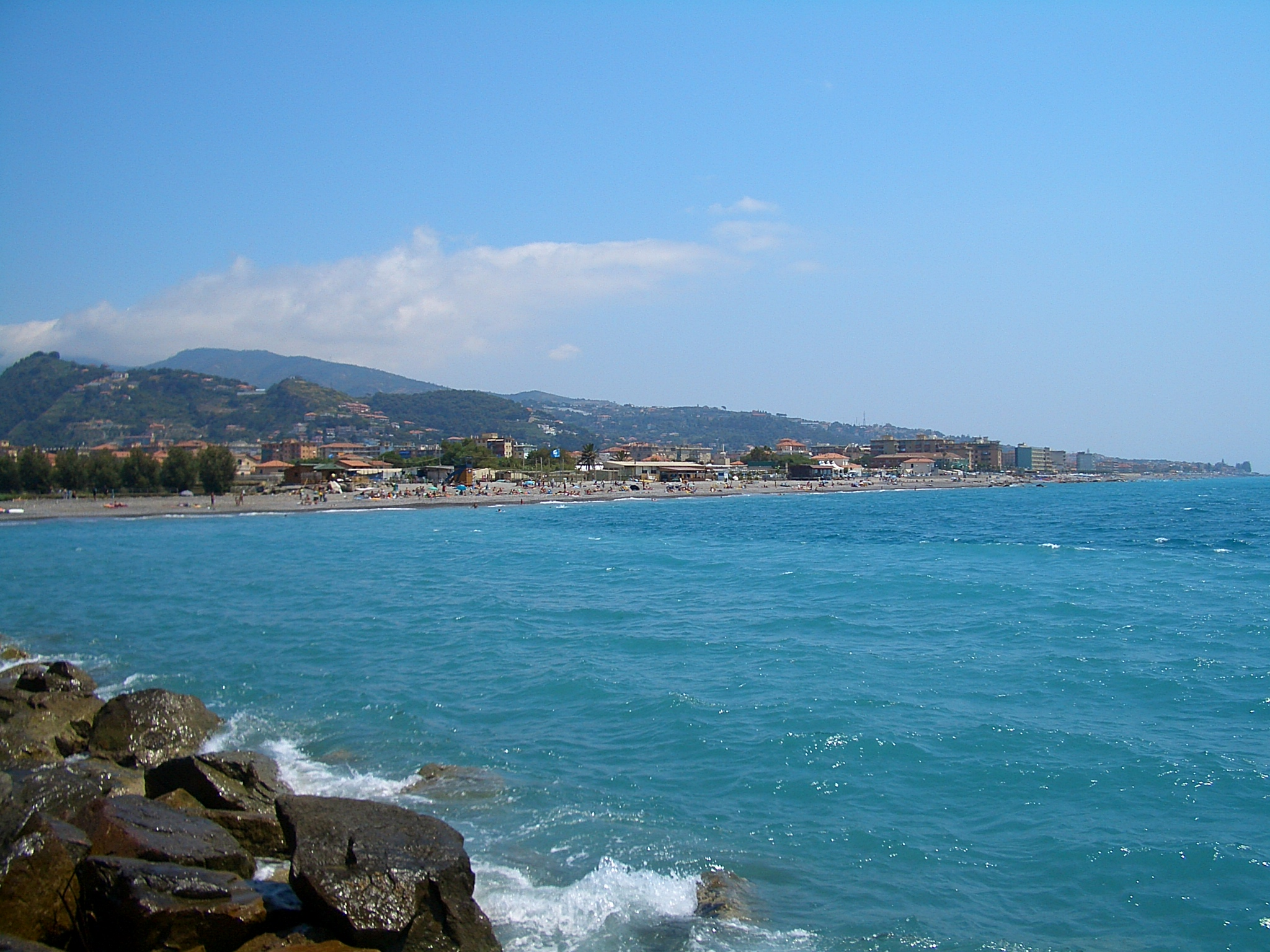 Looking east - to Vallecrosia - from the little Camporosso beach